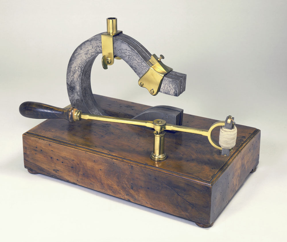 Artist UnknownAuthor Leopoldo NobiliDescription